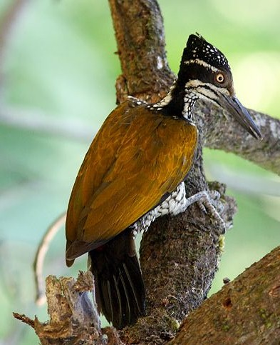 Chrysocolaptes guttacristatus, Western Ghats, Sirsi, Karnataka, India 2006